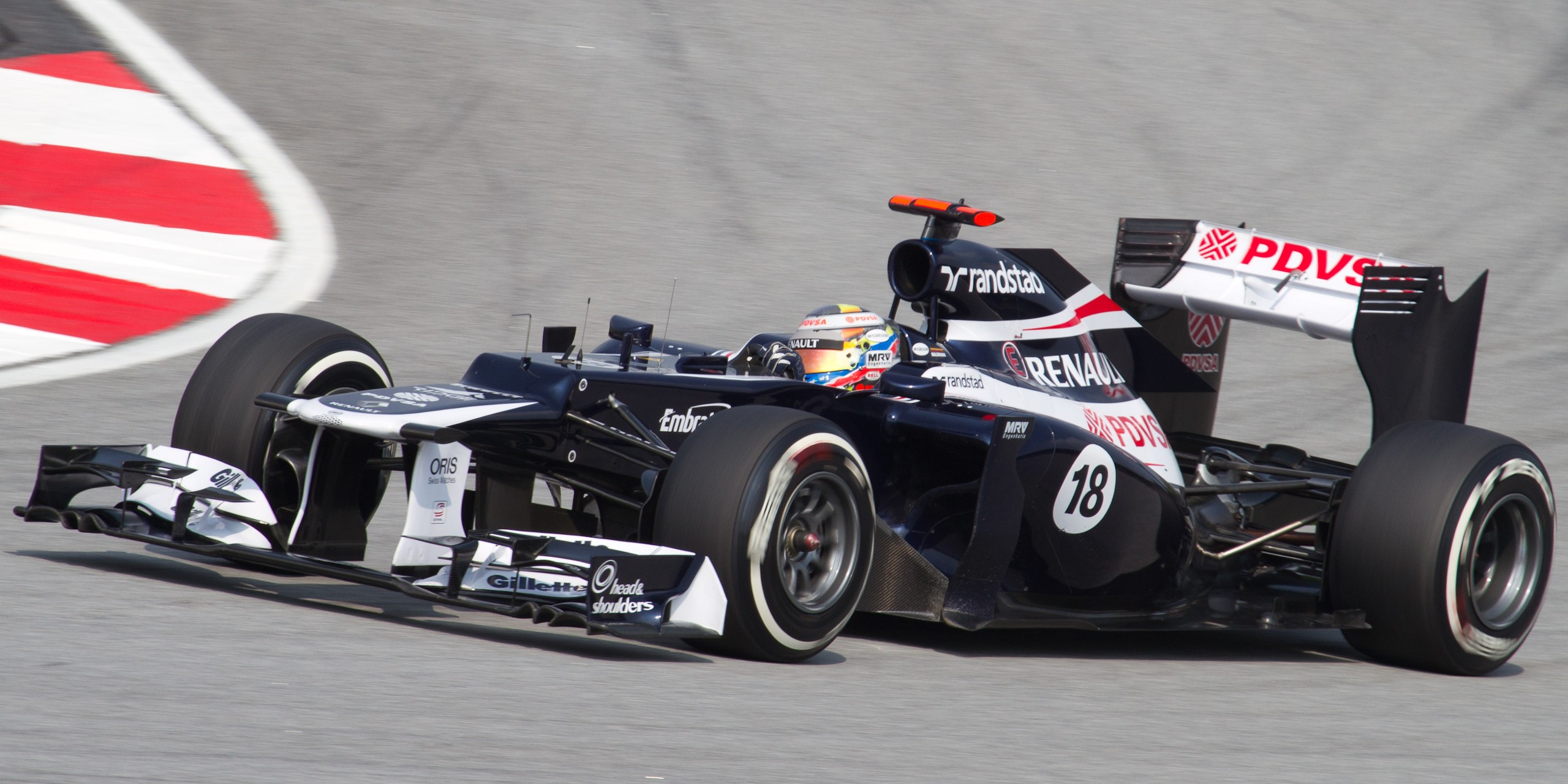 Formula One 2012 Rd.2 Malaysian GP: Pastor Maldonado (Williams) during the qualify session on Saturday.